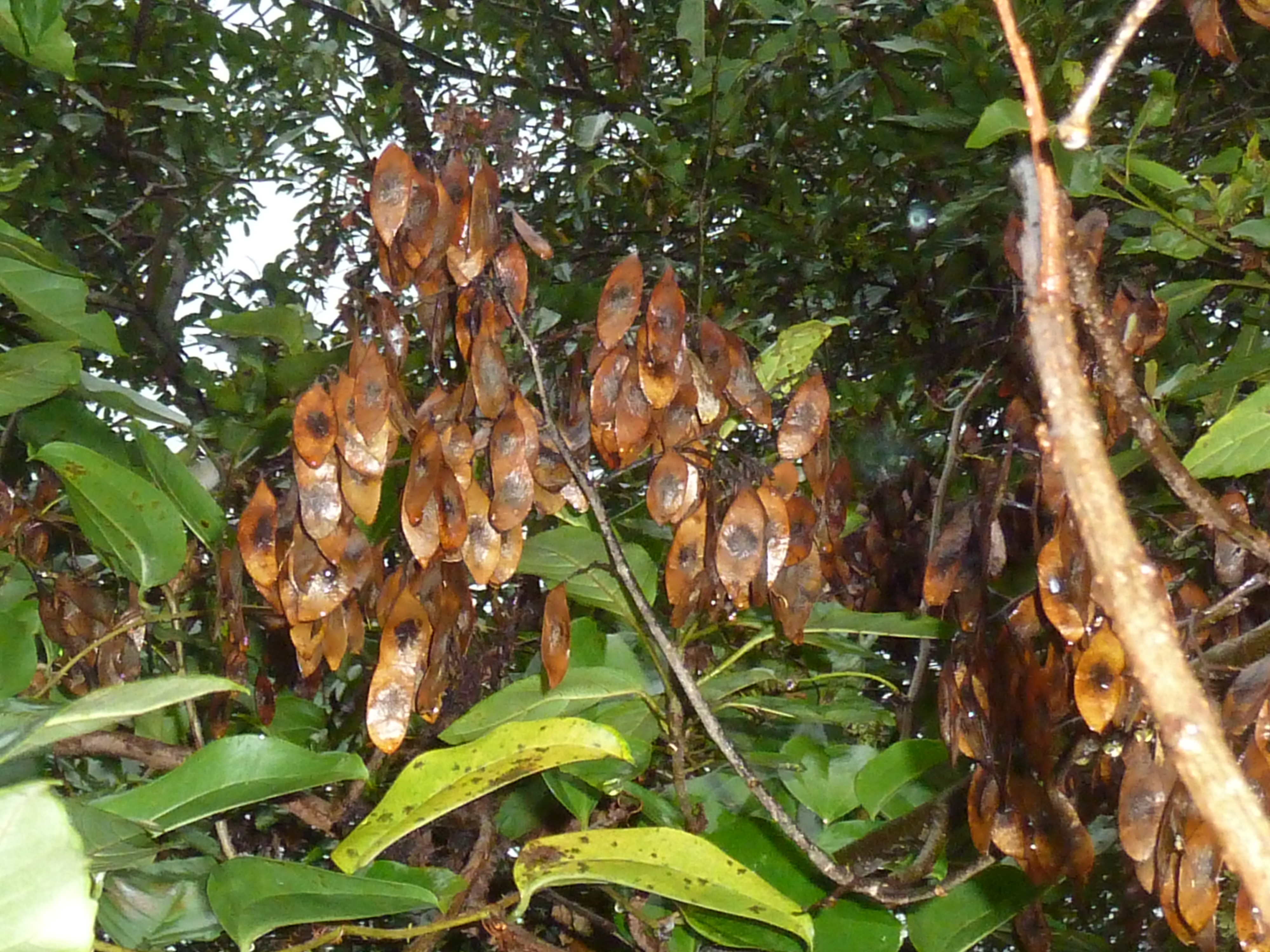 Seed pods of Dalbergia obovata in Springside Nature Reserve in Hillcrest, KwaZulu-Natal